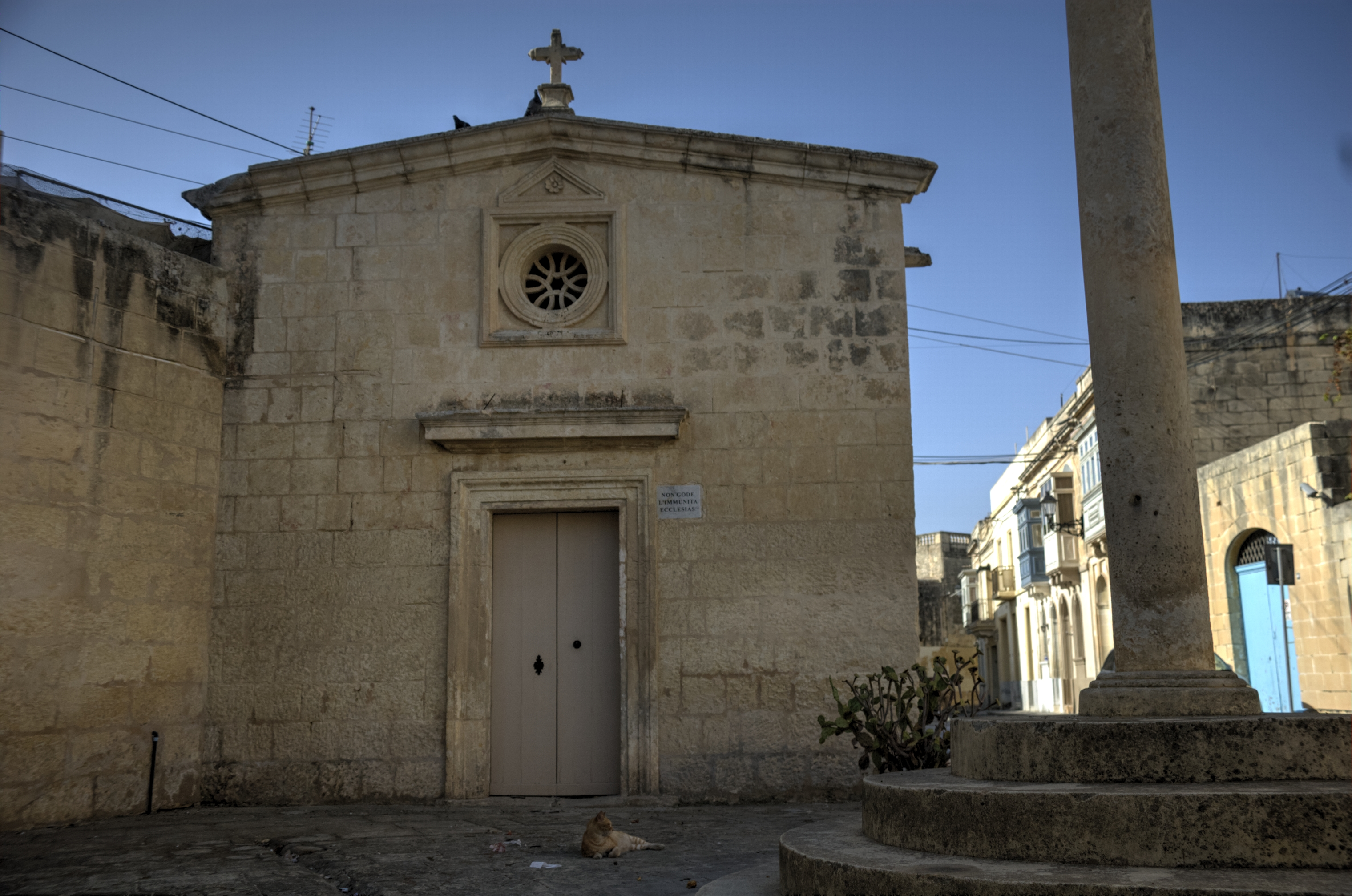 Church of St. Roque, in Balzan, Malta This media is about Maltese cultural property with inventory number 00169.